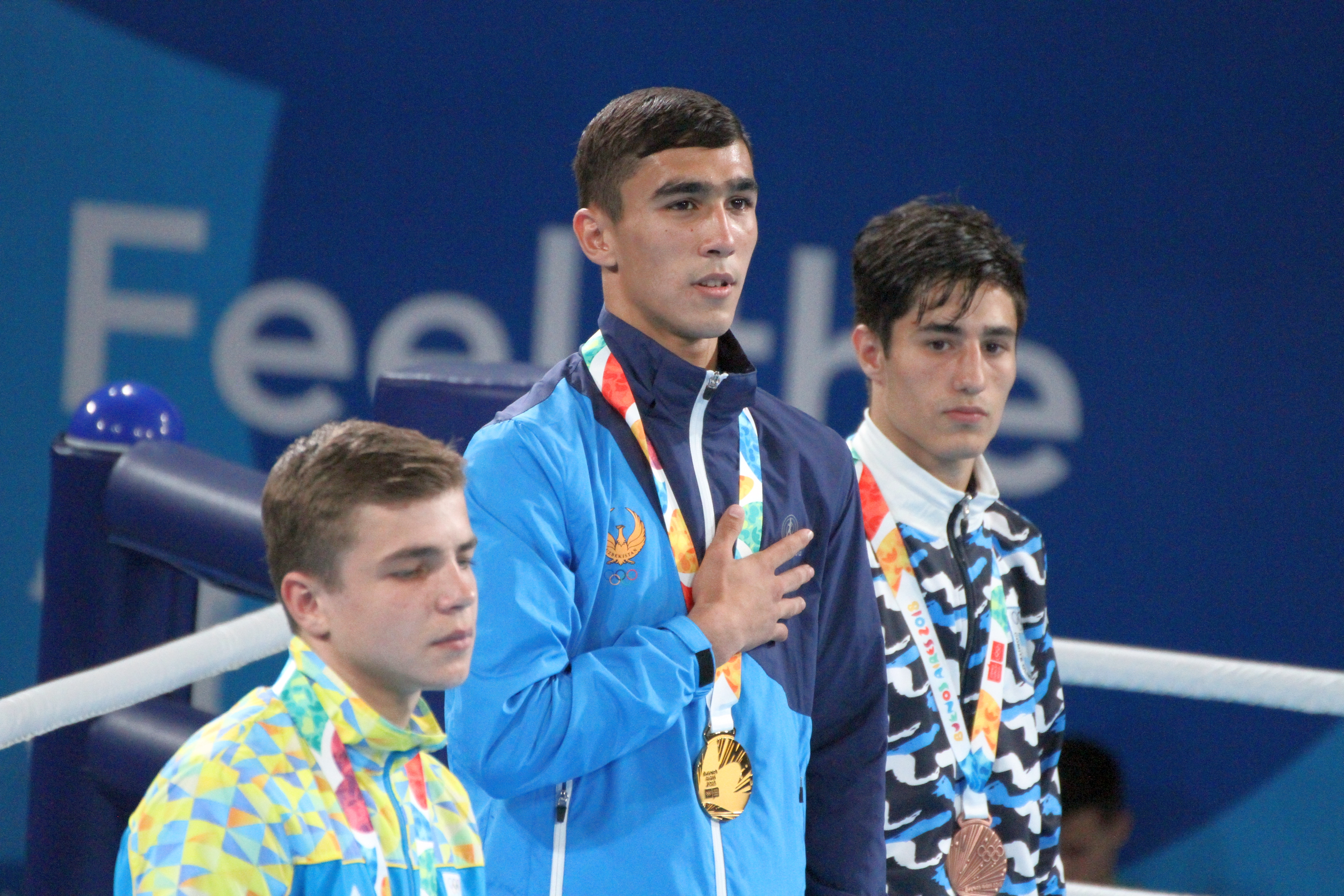 Boxing at the 2018 Summer Youth Olympics on 18 October 2018 – Boys' bantamweight Victory Ceremony - Gold: Abdumalik Khalokov (Uzbekistan), Silver: Maksym Halinichev (Ukraine), Bronze: Mirco Jehiel Cuello (Argentina); Medal handover by Daina Gudzinevičiūtė (IOC, Lithunia), Gift presented by Osvaldo Bisbal (Argentina, AIBA).